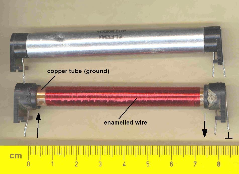 electric delay line (450ns) from a color TV-set. Made of enamelled copper wire, wound in one layer around a copper tube